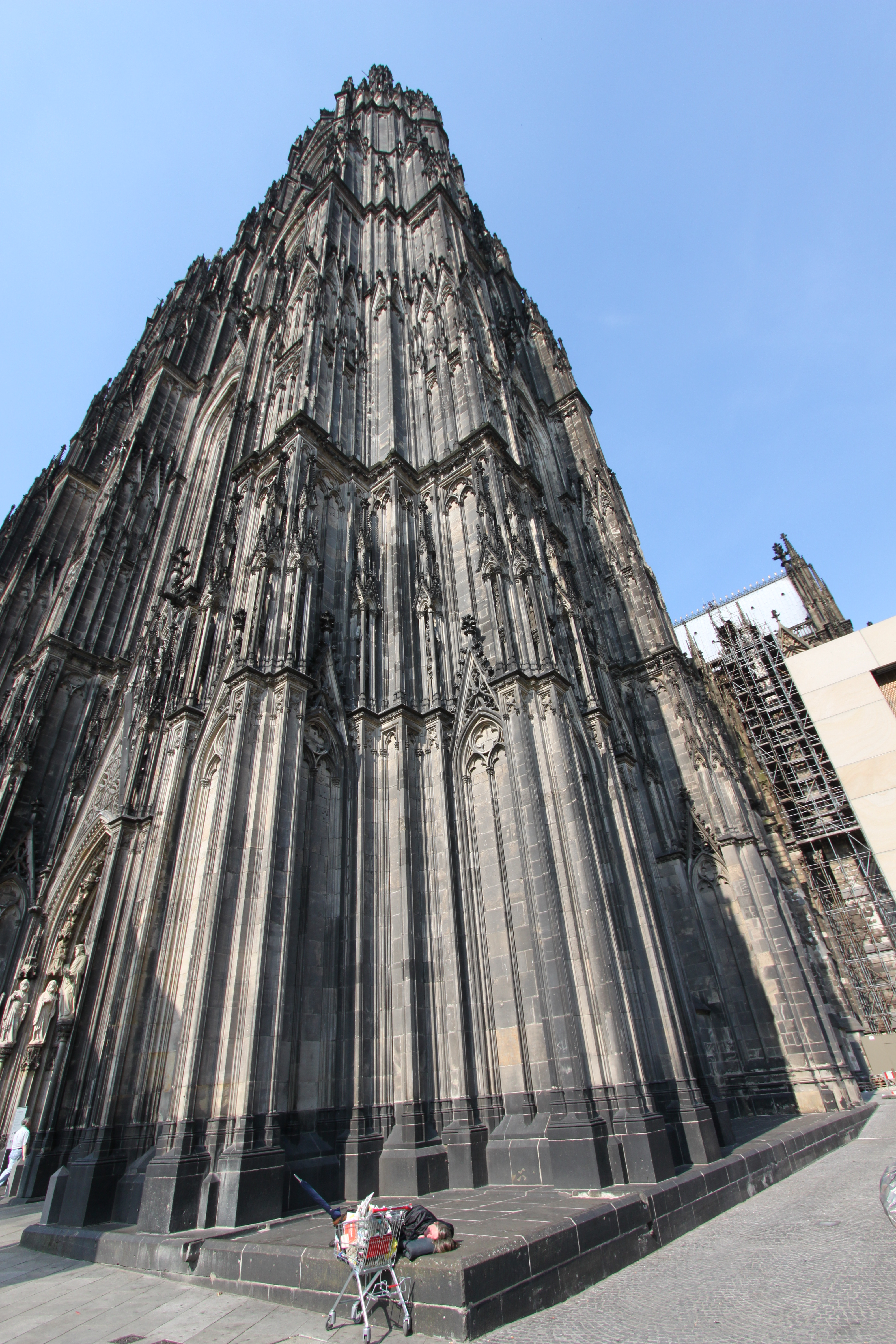 A homeless on the corner of Cologne Cathedral, Germany, 2010